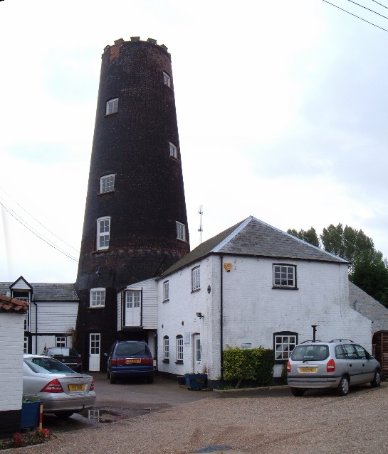 The truncated windmill conversion at Gayton, Norfolk